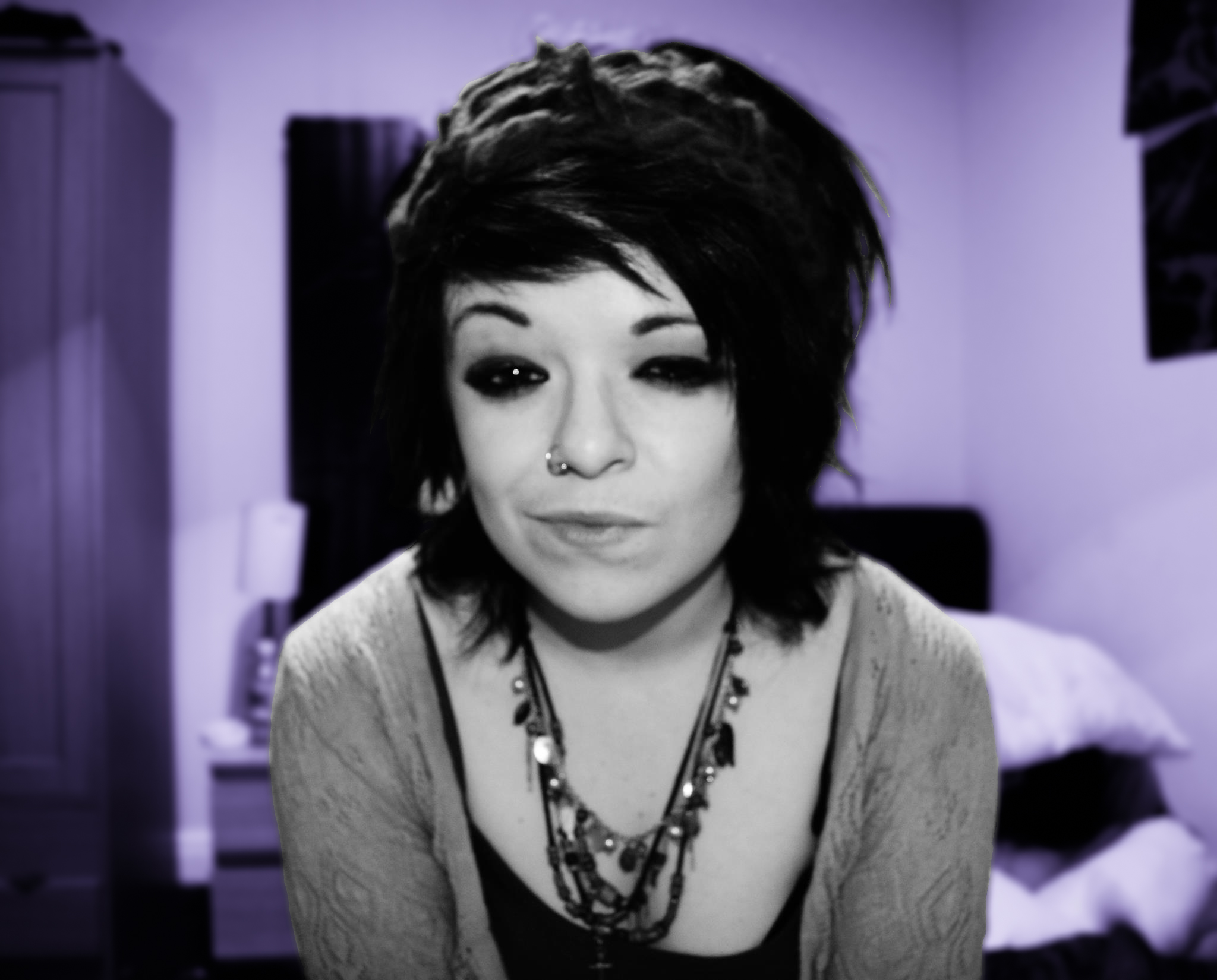 Color portrait of chiptune musician Chipzel